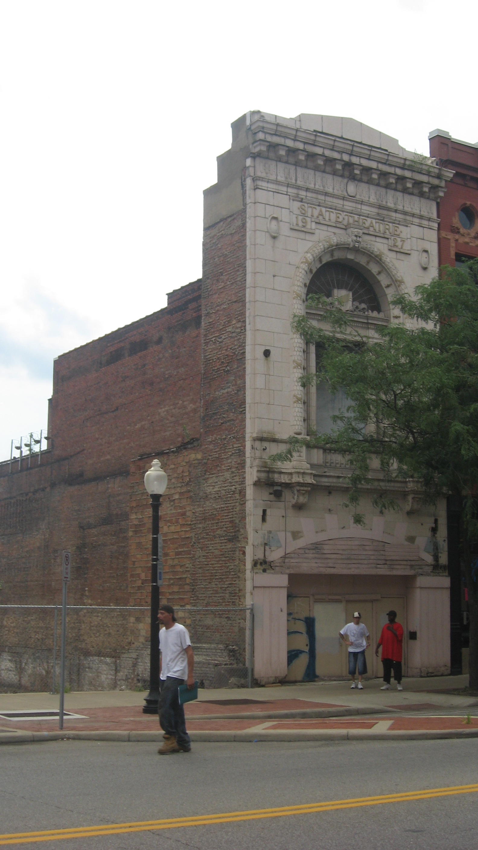 Front and eastern side of what remains of the State Theater, located at 213 W. Federal Street in downtown Youngstown, Ohio, United States. Built in 1927, it is listed on the National Register of Historic Places.